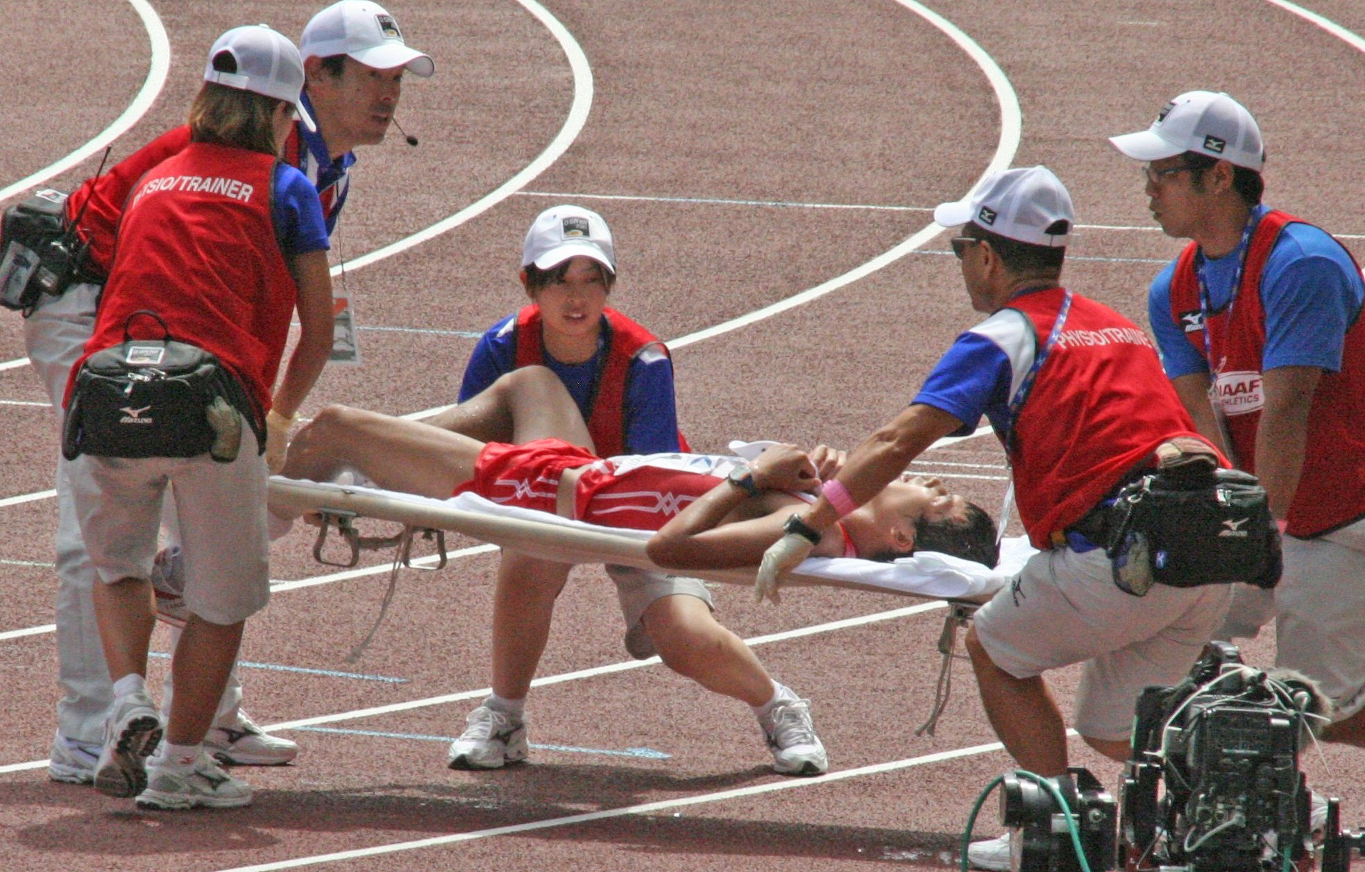 World Athletics Championships 2007 in Osaka - One of many cases of exhaustion and injuries at the championships. Japanese race walker Yuki Yamazaki is carried away by helpers after crossing the finishing line of the 50km race. He came in as fifth but was disqualified.